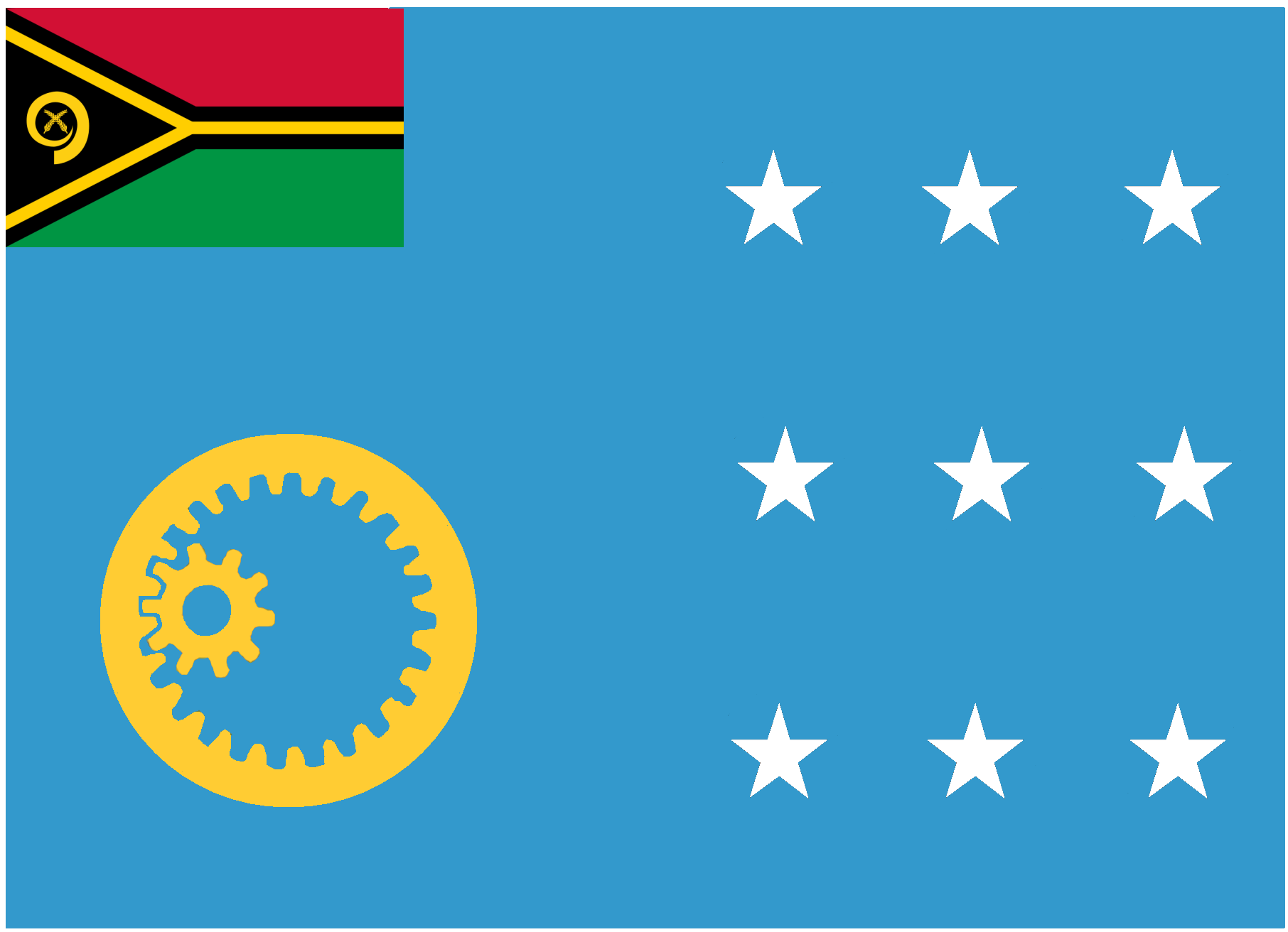 Flag of Sanma, Vanuatu